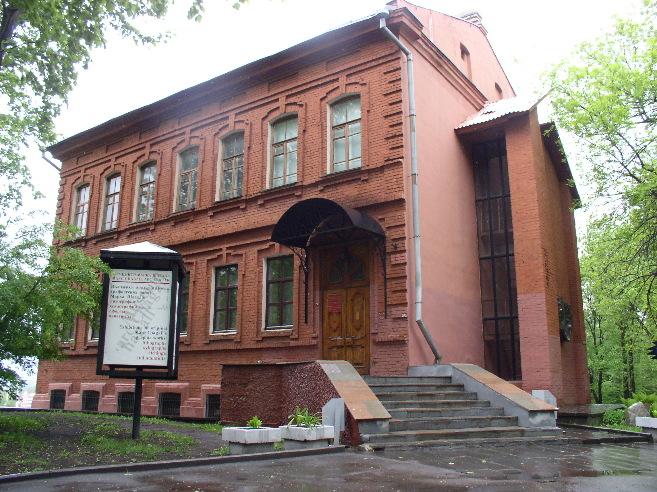 Marc Chagall Art-center. Vitsebsk, Belarus.